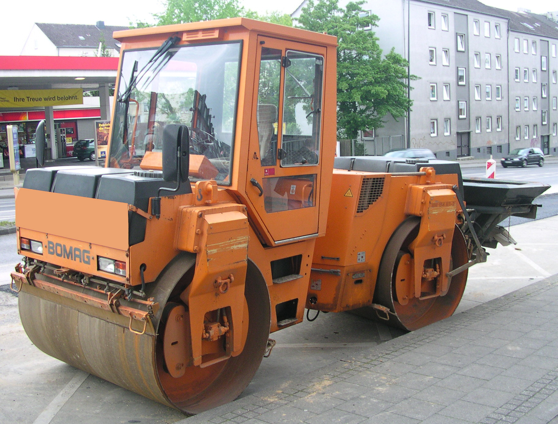 Bomag BW 154 AD-2 road roller